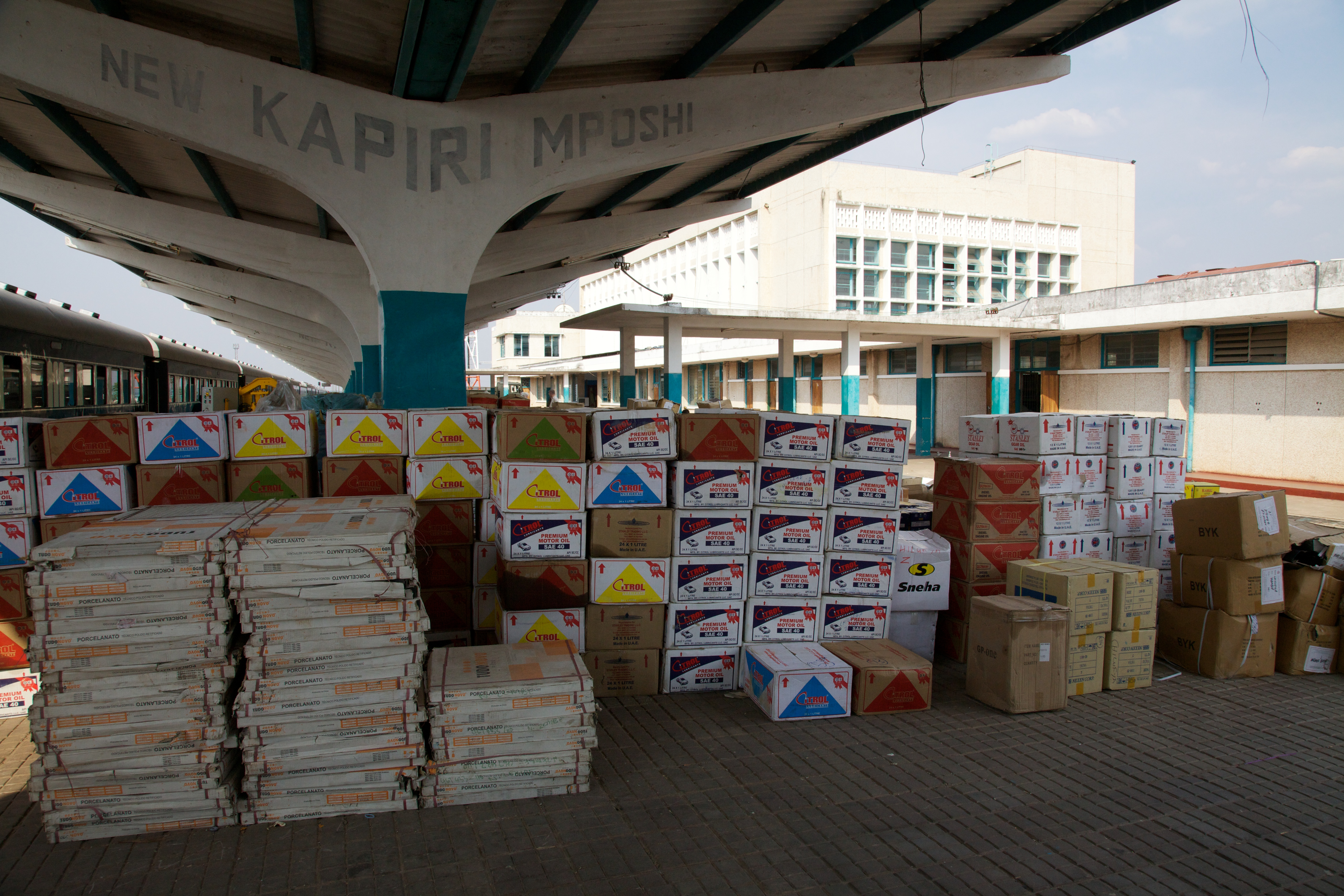 On the platform of the New Kapiri Mposhi Railway Station in Zambia. Kapiri Mposhi was the western terminus of the Tazara (Tanzania-Zambia) Railway. From here we changed to a much older (and even poorer) maintained railway.